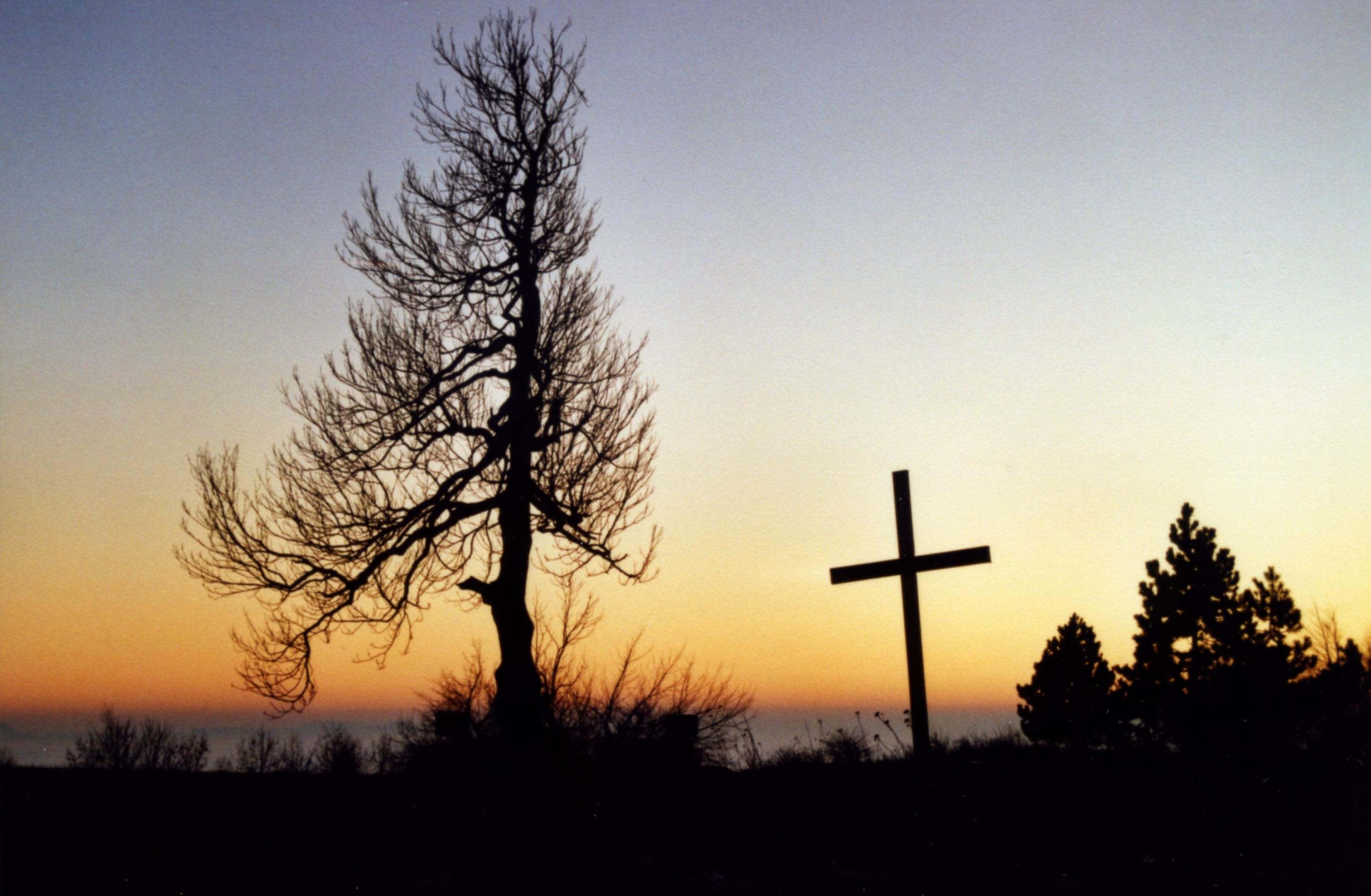 This image shows the twilight just after sunset. The picture was taken in the czech part of the Ore Mountains.